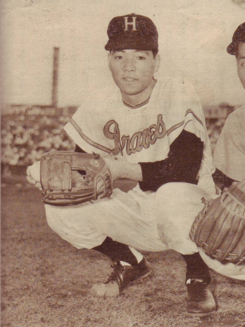 Tetsuya Yoneda. taken in 1956.